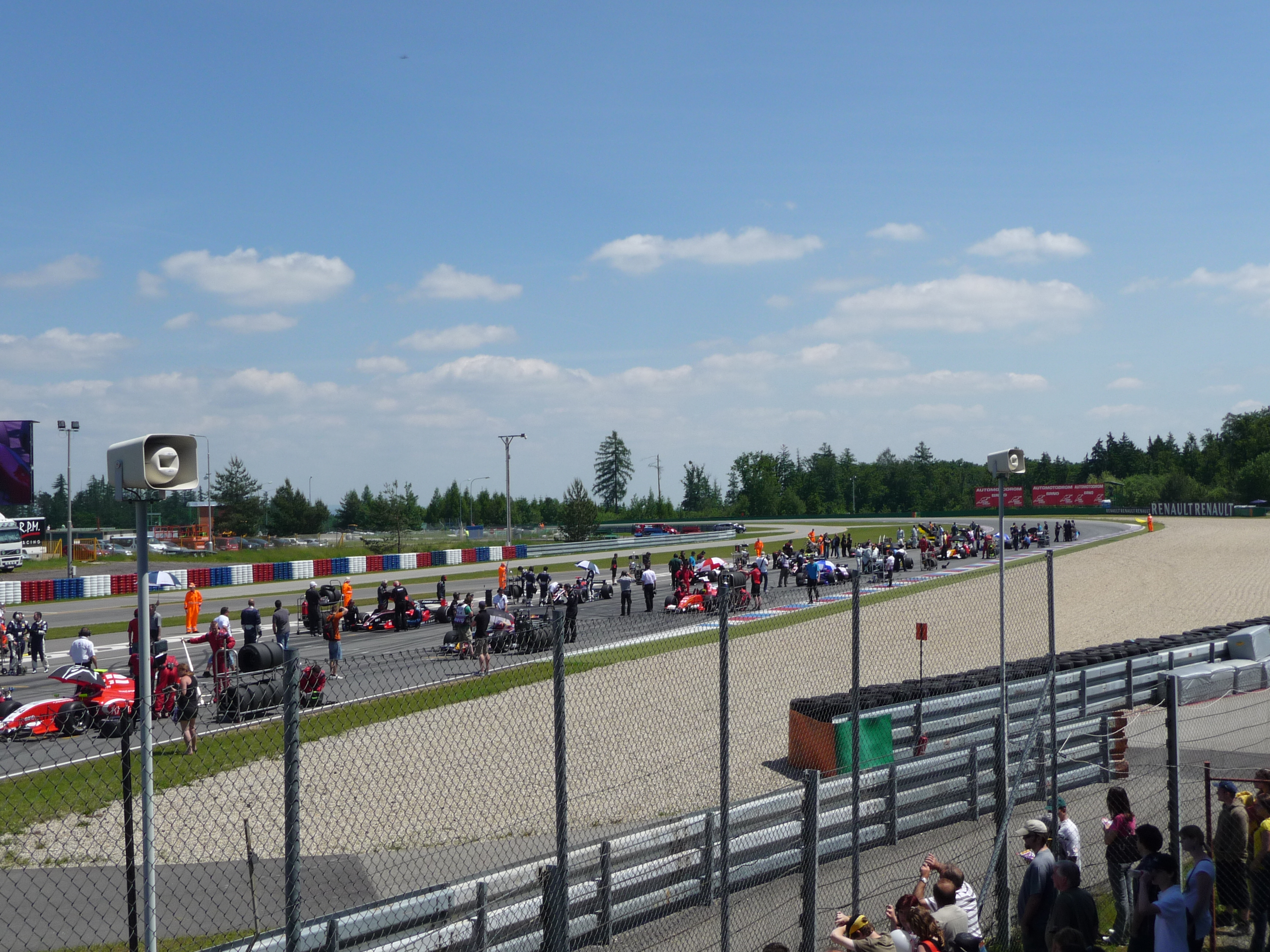 Jon Lancaster, Daniel Zampieri, Daniel Ricciardo, Keisuke Kunimoto, Greg Mansell, Sten Pentus, Federico Leo, Mikhail Aleshin, Bruno Méndez, Albert Costa, Omar Leal, Anton Nebylitskiy, Jake Rosenzweig, Sergio Canamasas, Víctor García a Daniil Move, Formula Renault 3.5 Series, 2nd race, 2010 Brno World Series by Renault -10-5-3-2◄►+2+3+5+10